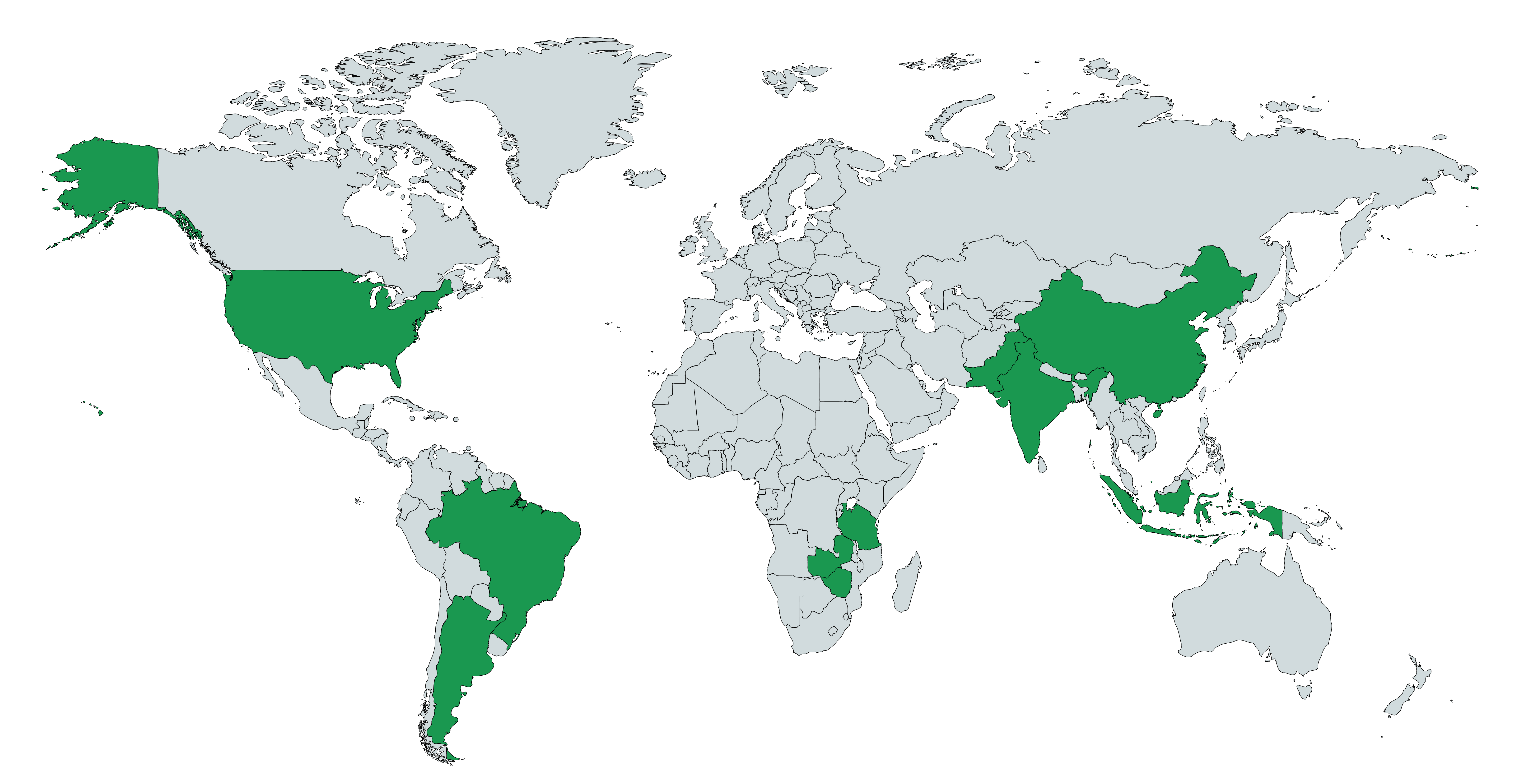 Top 10 tobacco producing countries according FAO in 2017